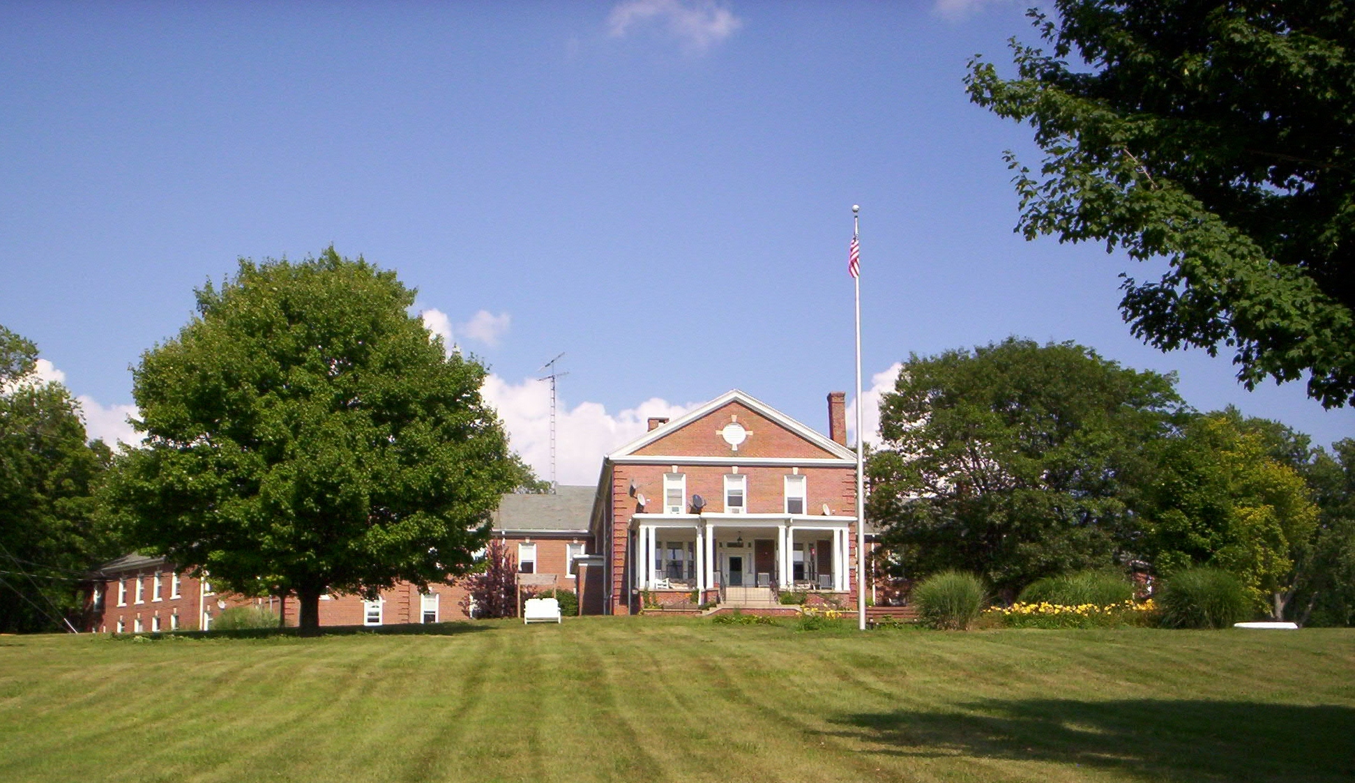 National Register of Historic Places Richland County Infirmary at 3220 Mansfield-Olivesburg Road (Ohio 545) in Weller Township north of Mansfield, Ohio, USA.